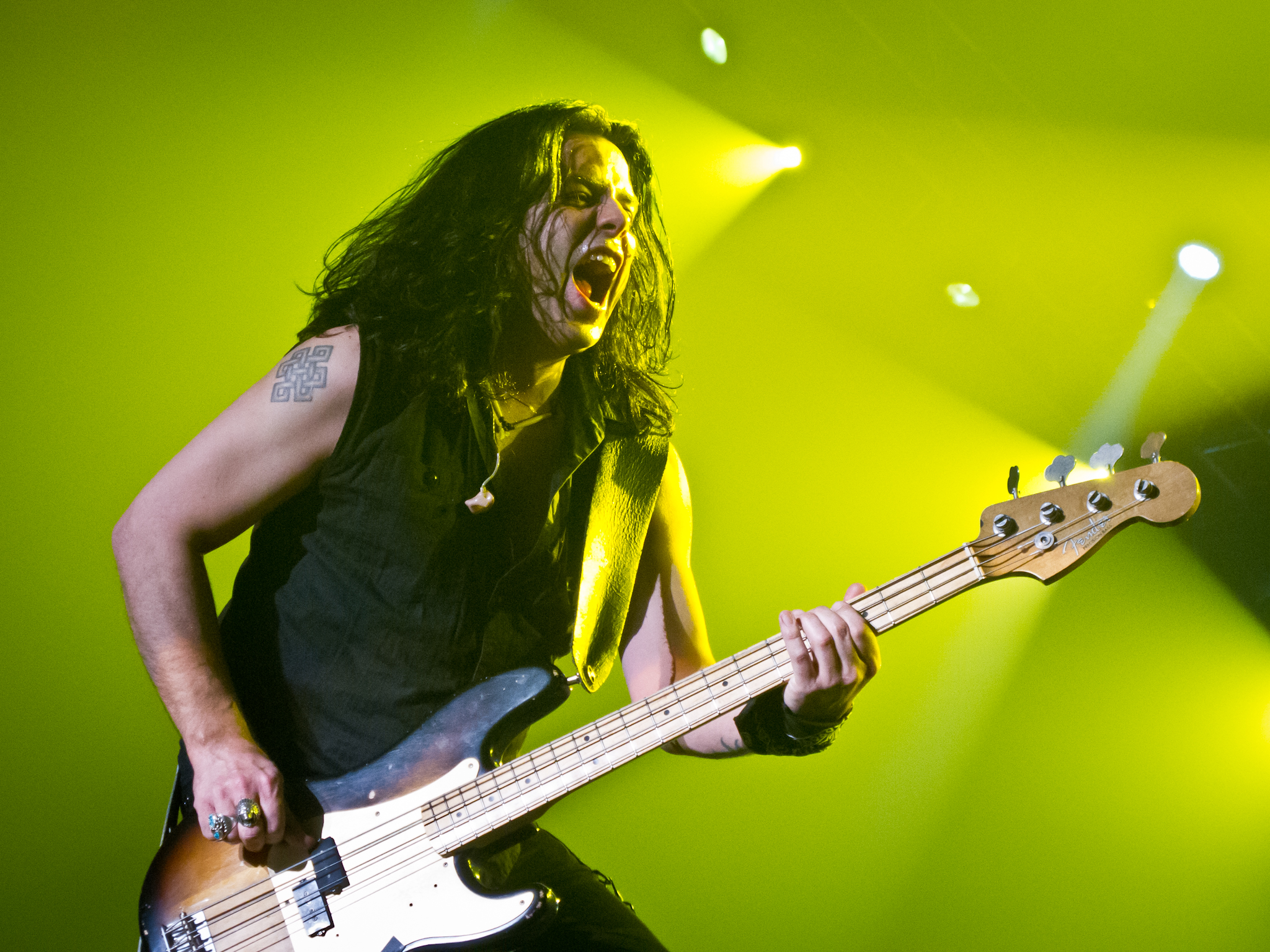 Paweł Mąciwoda, bassist of German rock band Scorpions, in Madrid in 2014.